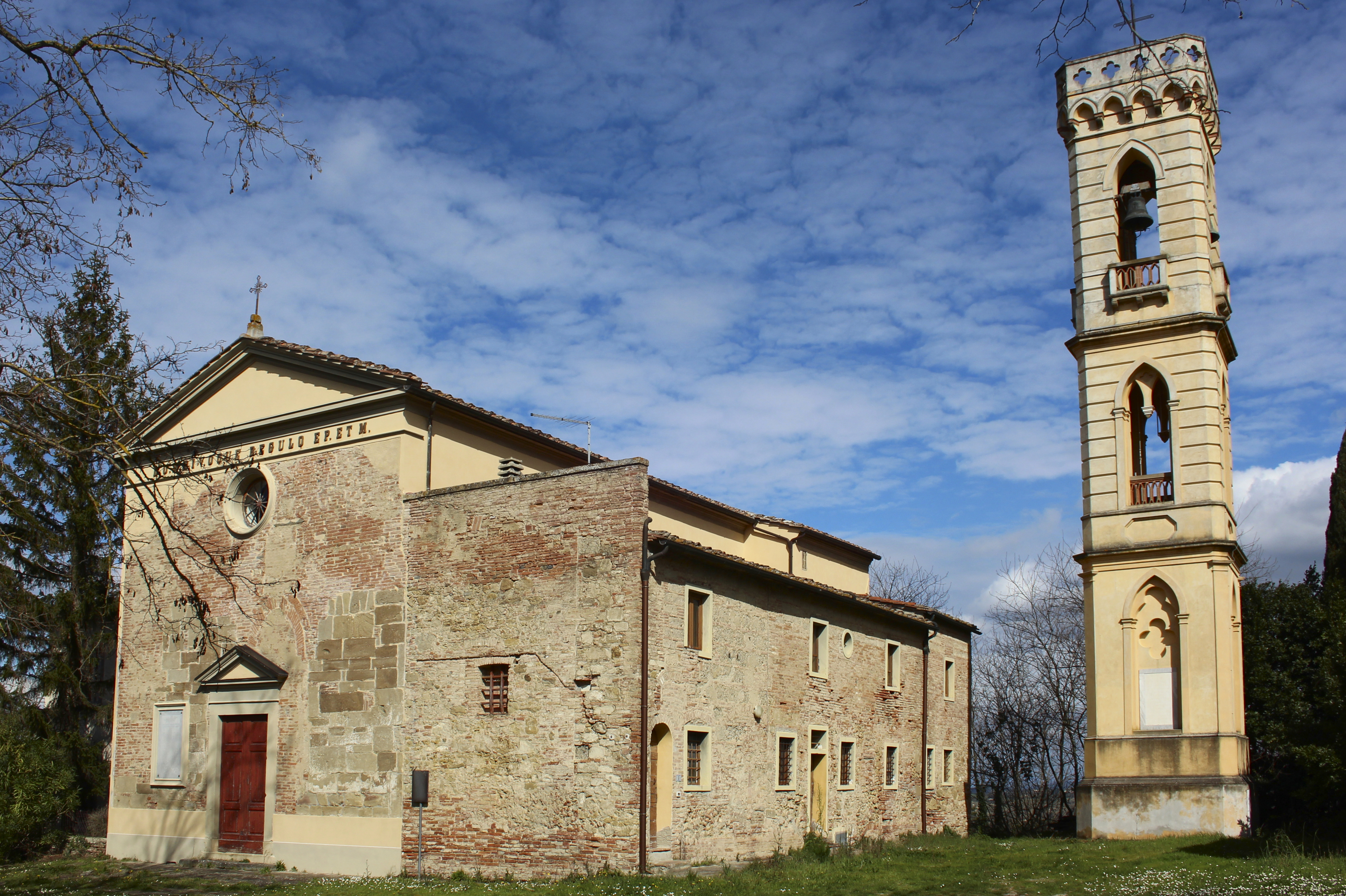 church San Regolo, Bucciano, hamlet of San Miniato, Province of Pisa, Tuscany, Italy